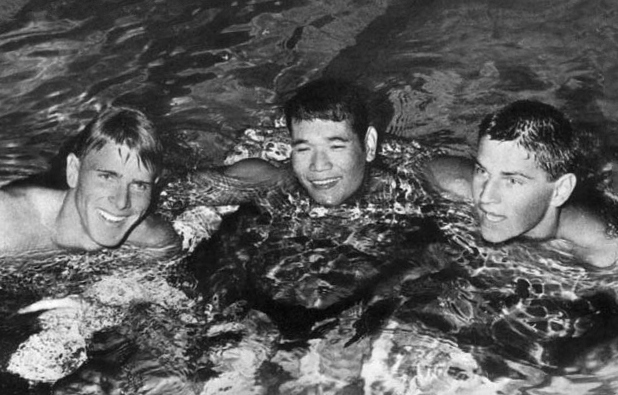 Left-right: Murray Rose, Tsuyoshi Yamanaka, John Konrads at the Rome Olympics